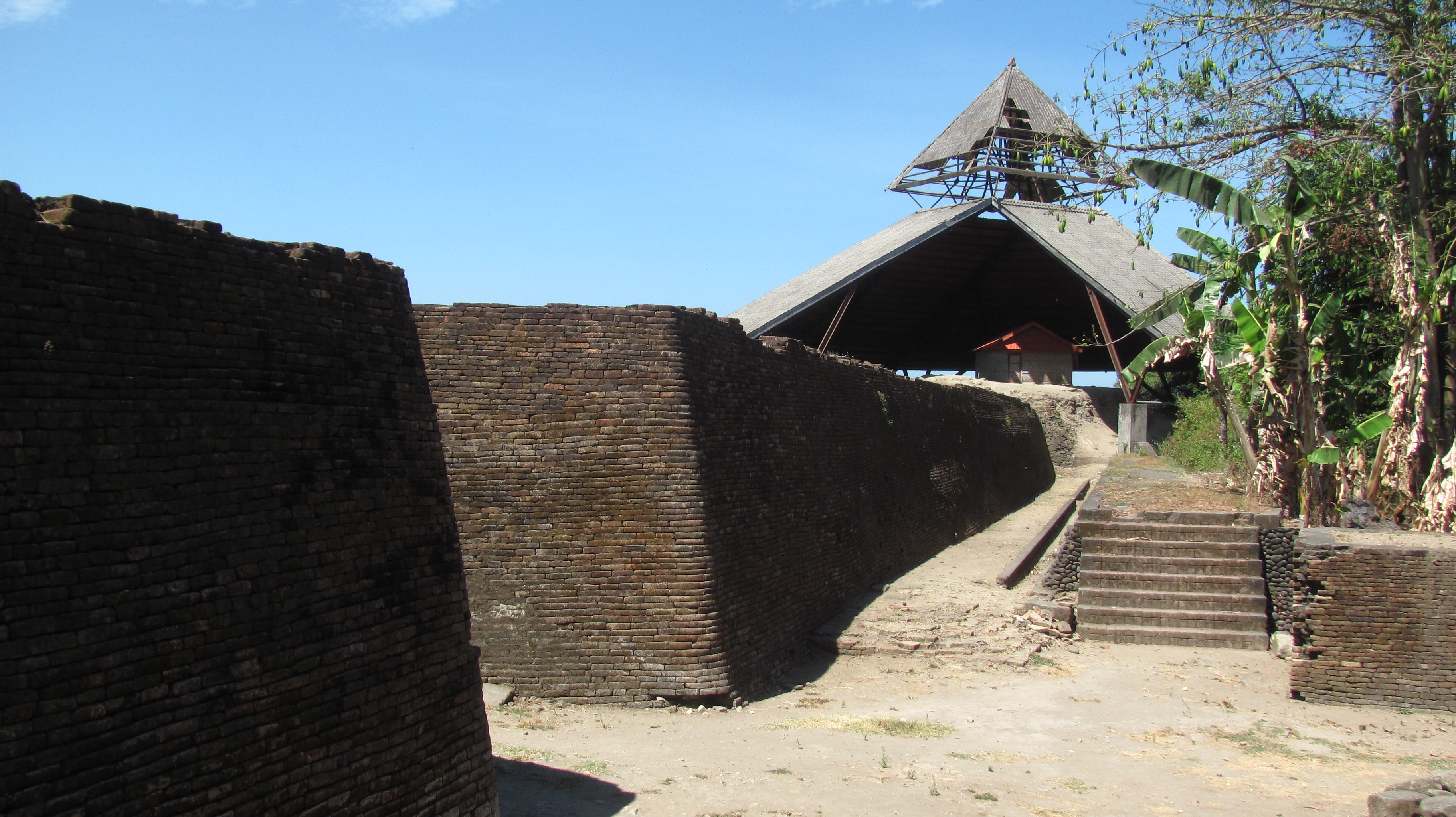 Fort Samba Opu, Sungguminasa, Sulawesi, Indonesia